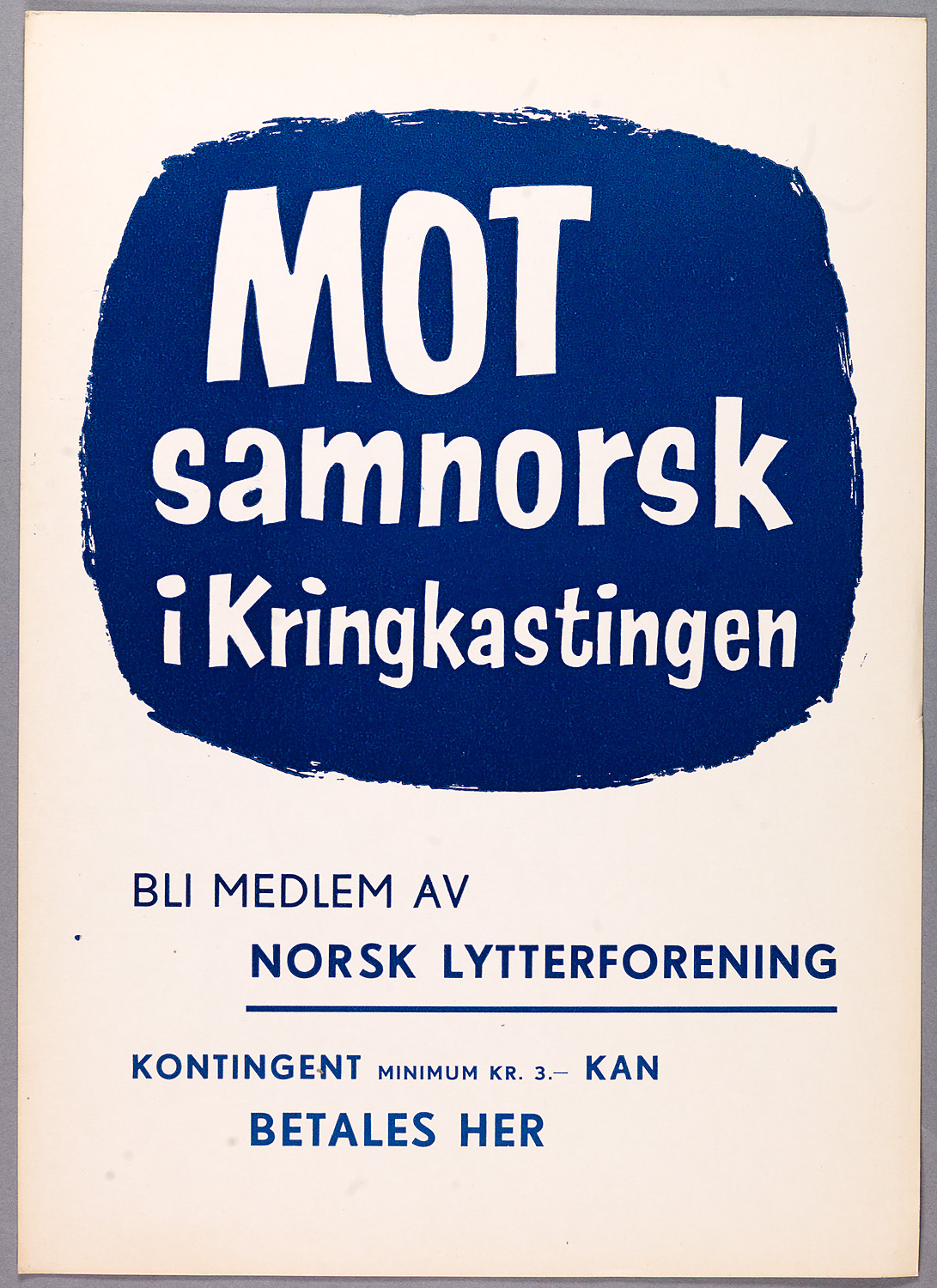 Riksmålsforbundet samnorsk opposed government policy and mandatory training in Norwegian, and would preserve and cultivate riksmål that the traditional standard written language in Norway. Parents campaign against samnorsk was organized by Riksmålsforbundet in 1951. The collected nearly half a million signatures against samnorsk. Riksmålsforbundet archive was donated to the National Archives in 2007. File Reference: National Archives, PA 1461_E15